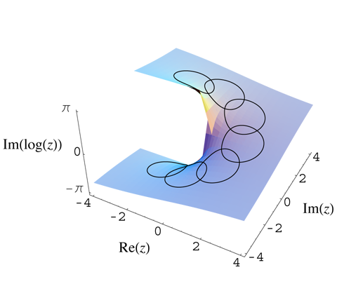 analytic continuation of the imaginary part of logarithmic function on the complex plane.This depicts a branch that vanishes at the x-axis, and indicates the possibility of continuation on the complement of the negative closed half line.